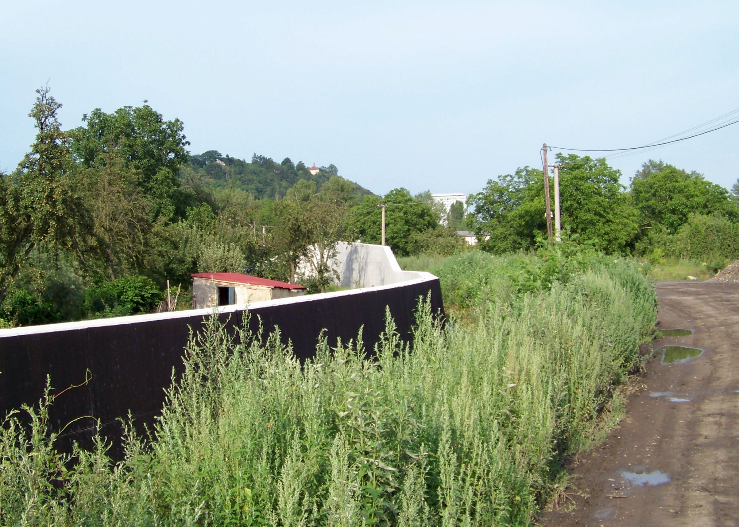 Troja, Prague, the Czech Republic.